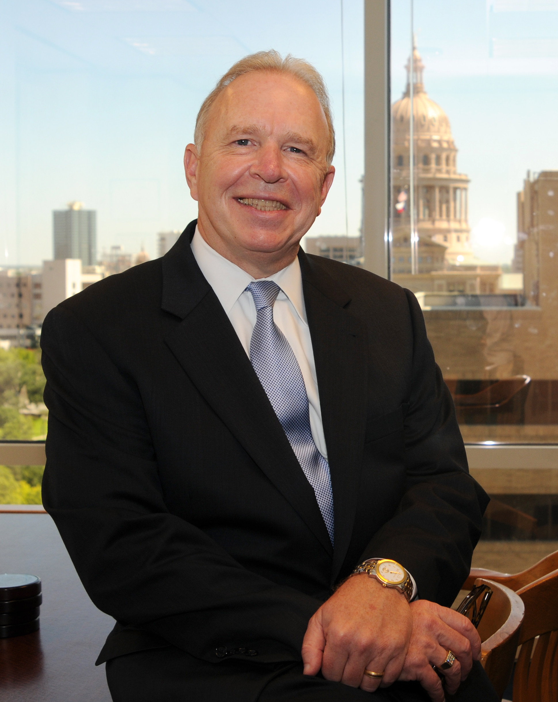 Former 299th District Court Judge and Texas Court of Criminal Appeals Judge Charles F. "Charlie" Baird.